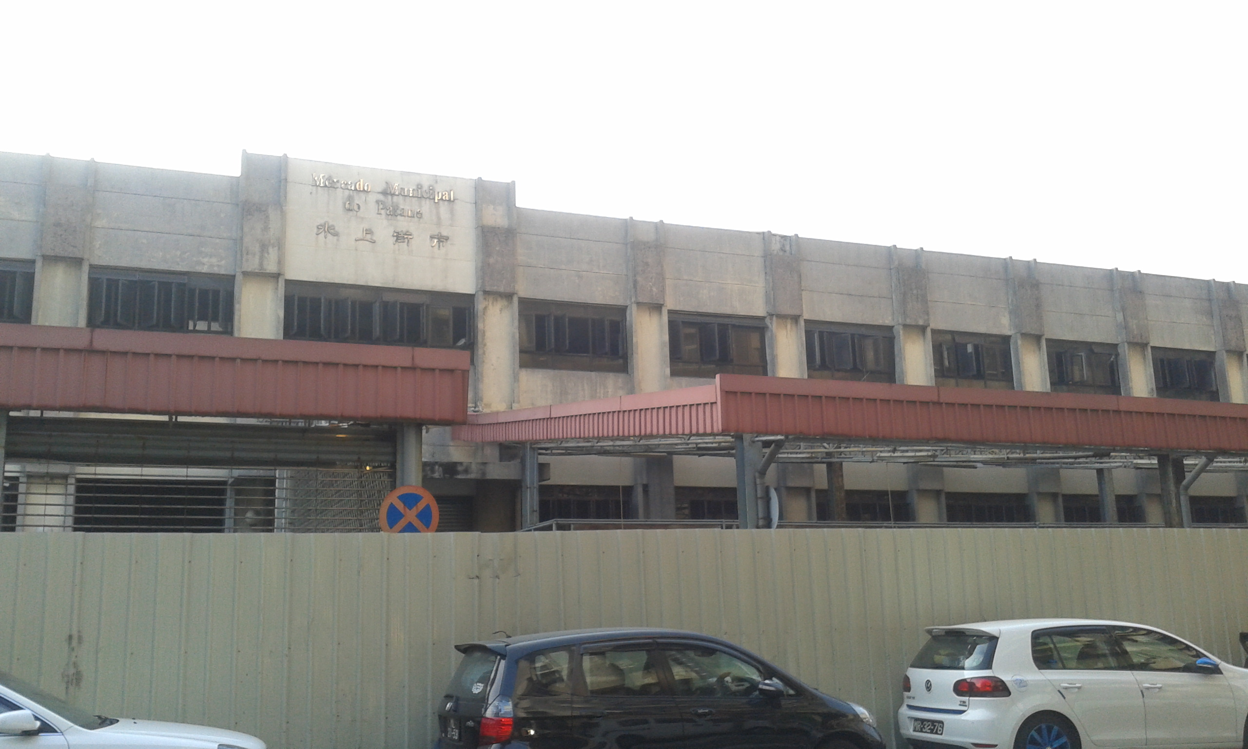 Mercado Municipal do Patane (old) in 2015